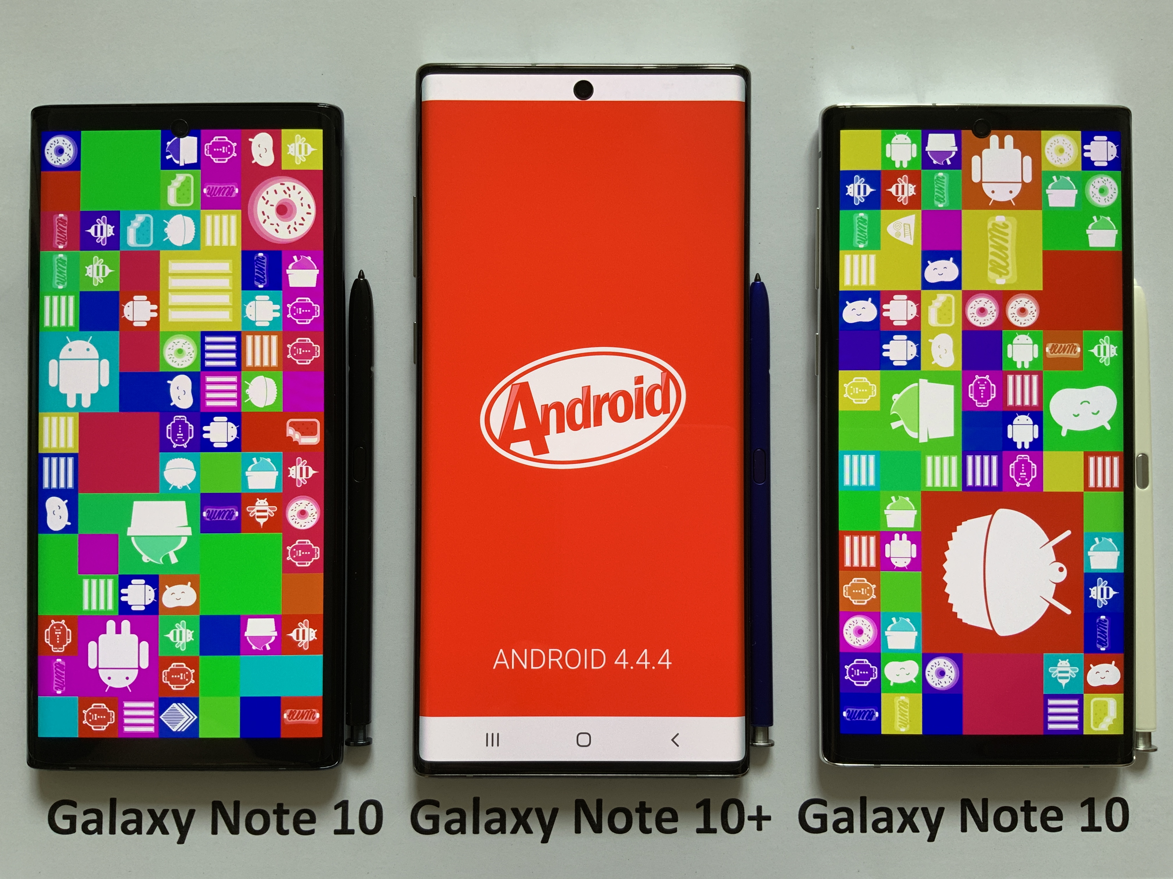 Android KitKat Easter eggs shown on Samsung Galaxy Note 10